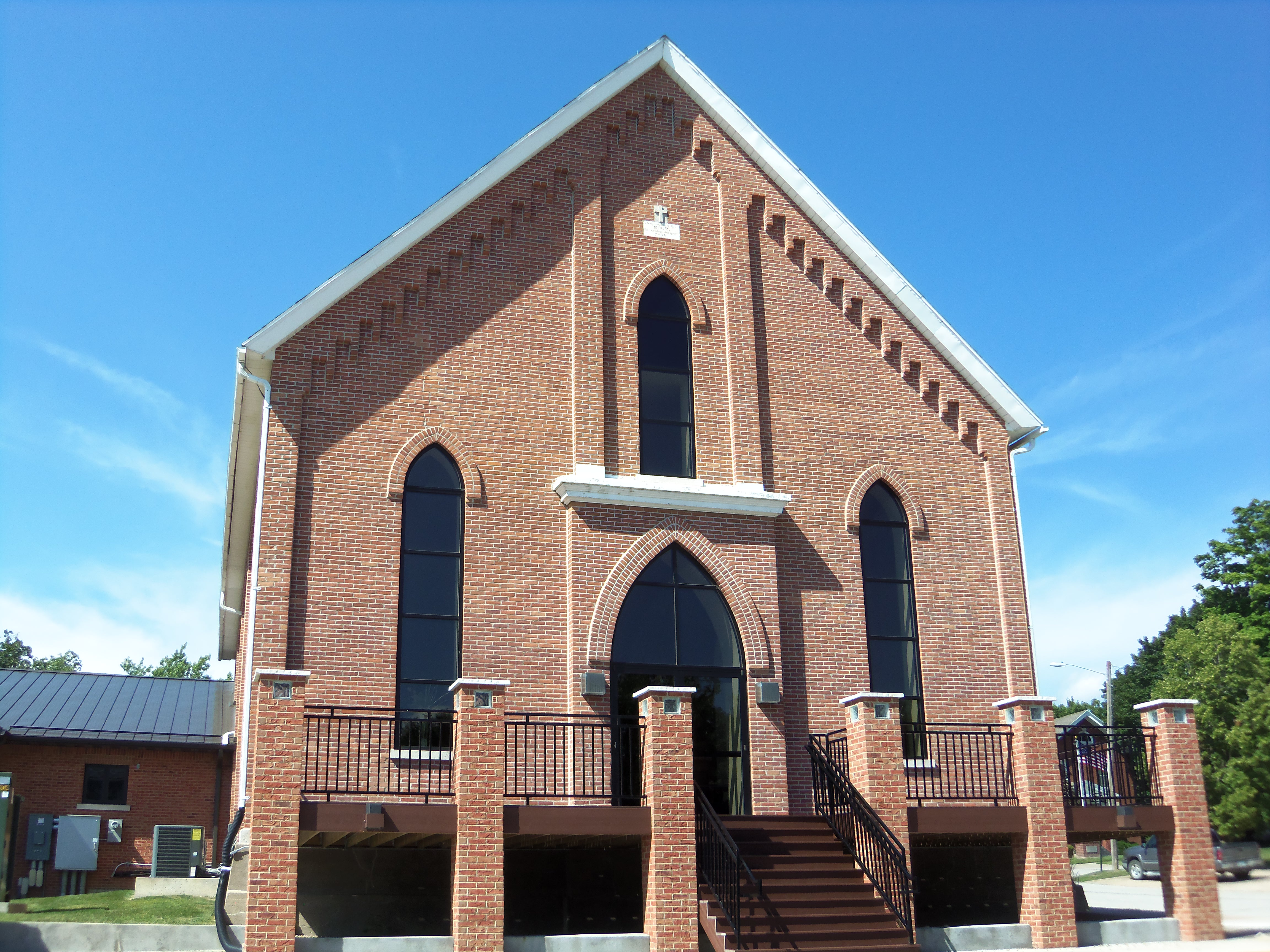 The first Saint Mary's Catholic Church in Riverside, Iowa. The building is now the parish hall. It is part of a historic district on the National Register of Historic Places that includes all the parish buildings.